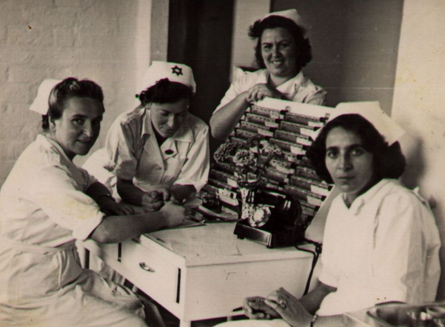 Nurses in Tel Hashomer Hospital 1948